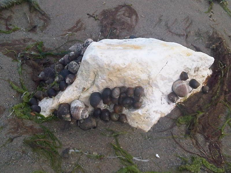 Rough periwinkles (Littorina saxatilis) in Isle of Wight, England seashores.